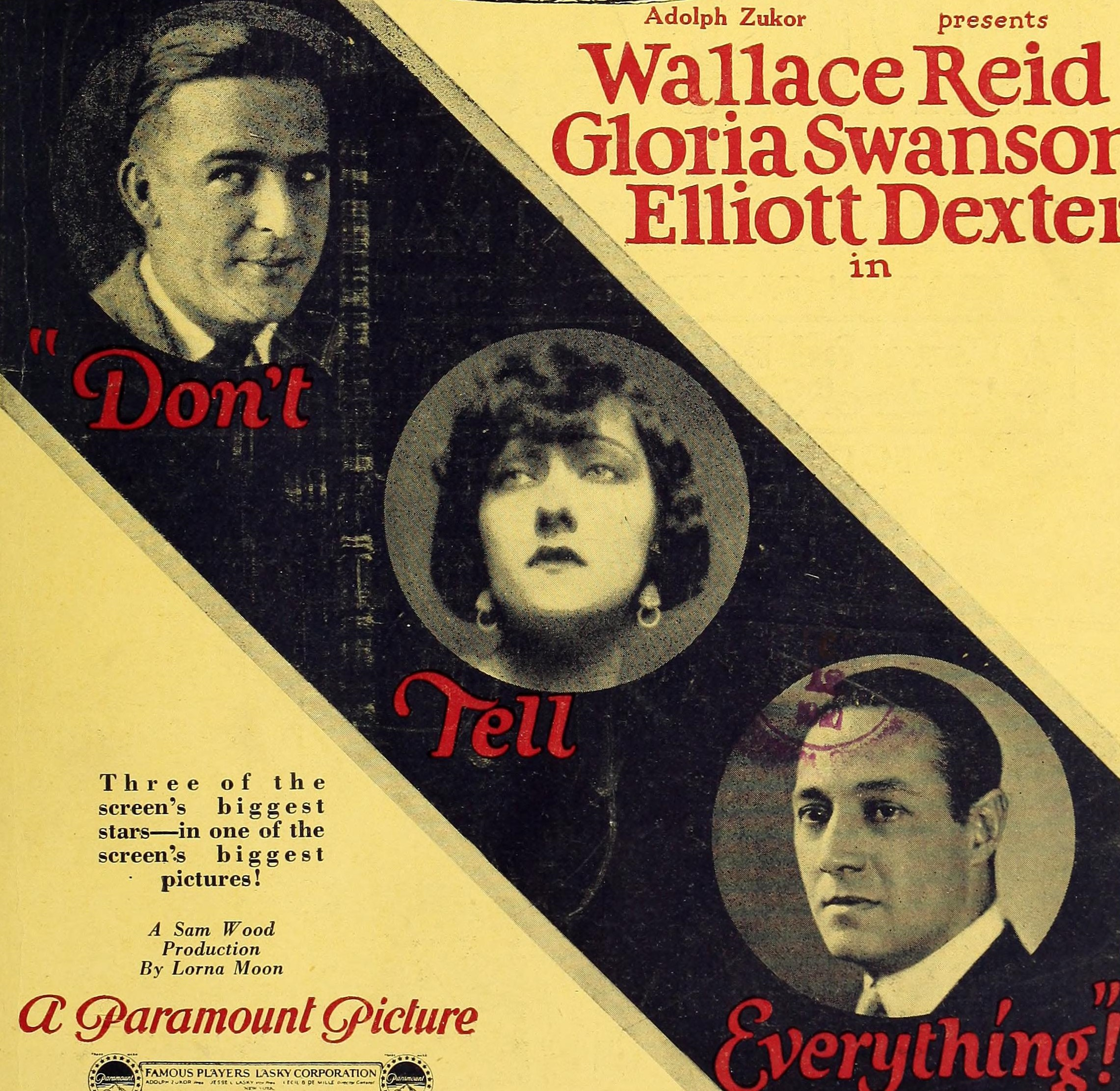 Front-cover advertisement for Don't Tell Everything in Exhibitor's Trade Review, October 22, 1921.